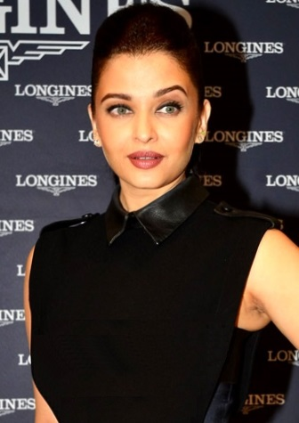 Aishwarya Rai Bachchan inaugurates Longines boutique